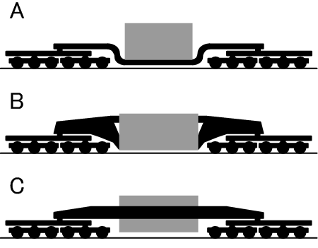 Type of heavy capacity railroad wagon. A: depressed center flatcar, B: schnabel car (transformer car), C: well hole car. In this figure, black part is a body of the wagon, and gray part is a cargo.